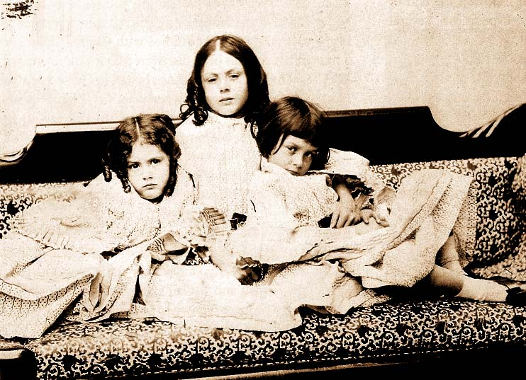 Edith, Lorina & Alice Liddell: This was first published in Carroll's biography by his nephew: Collingwood, Stuart Dodgson (1898) The Life and Letters of Lewis Carroll, London: T. Fisher Unwin, pp. p. 94 Retrieved on 22 December 2010.